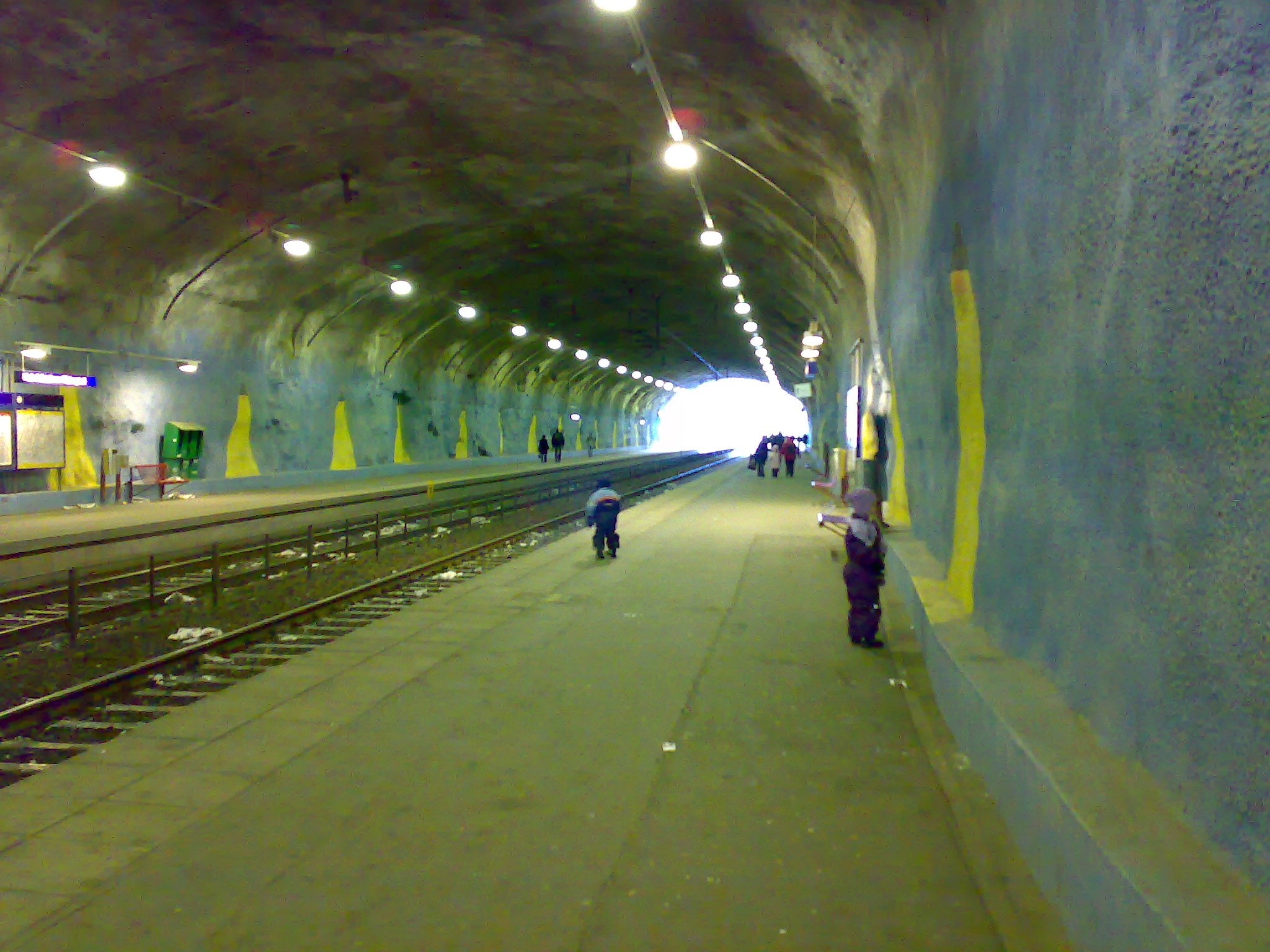 Malminkartano railway station270120071668